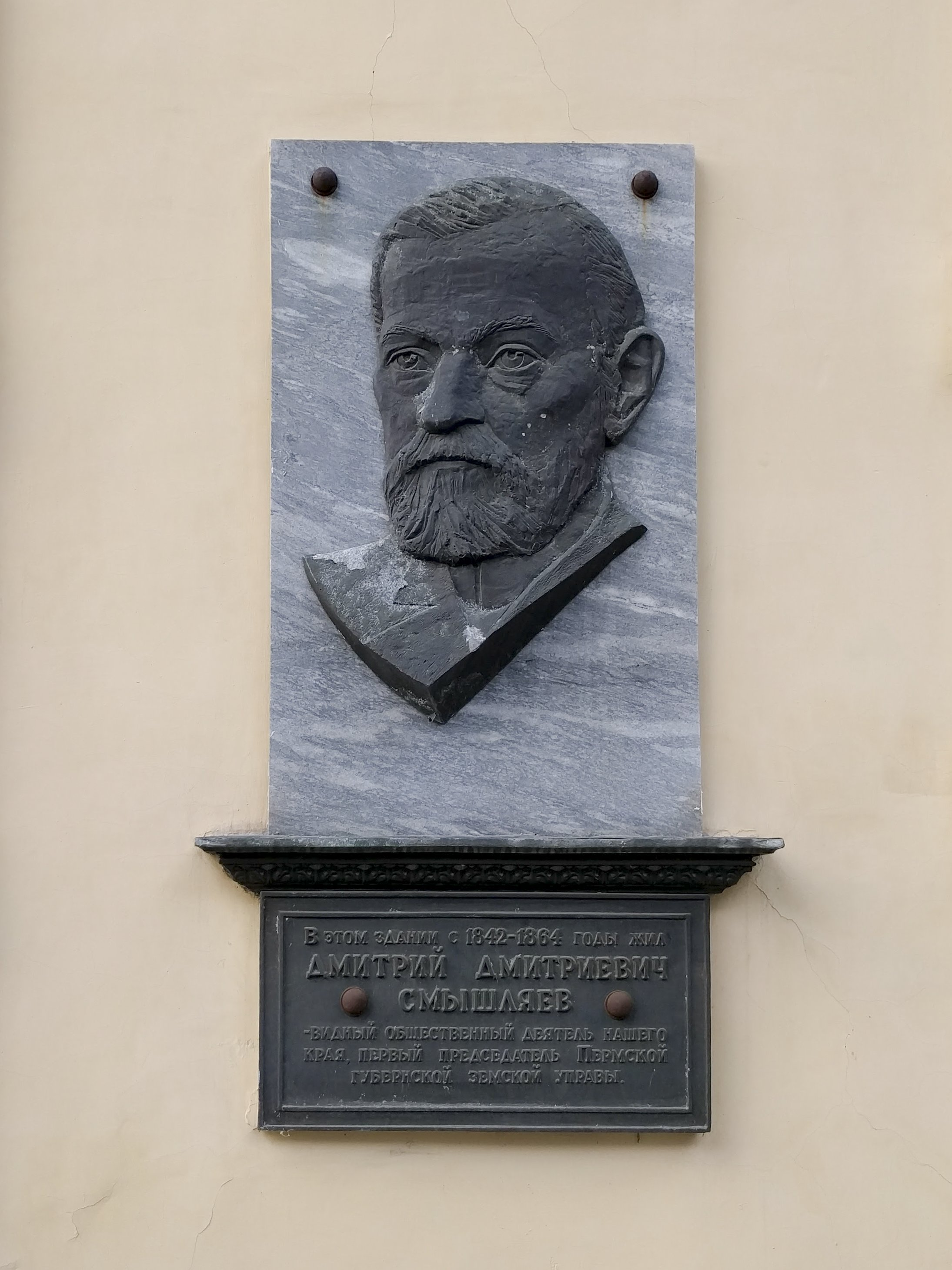 Табличка Смышляев. Библиотека Пушкина в Перми. "В этом здании с 1842-1864 годы жил Дмитрий Дмитриевич Смышляев - видный общественный деятель нашего края, первый председатель Пермской губернской земской управы"